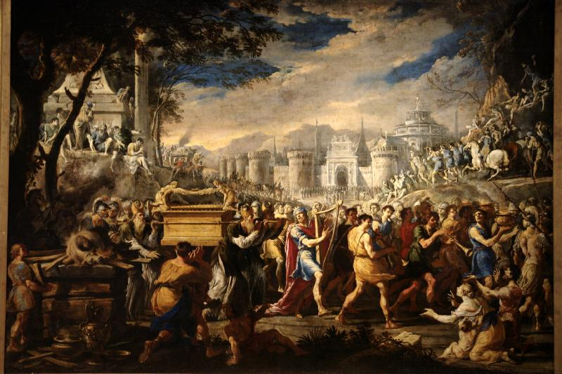 David bearing the ark of testament into Jerusalem